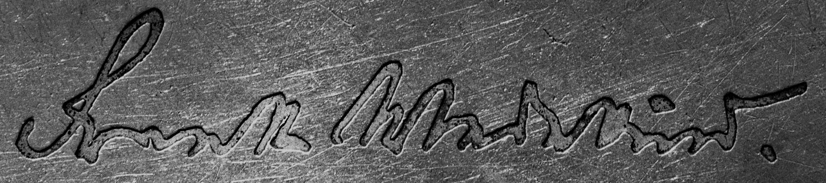 Walk of Fame of Cabaret: Frank Wedekind